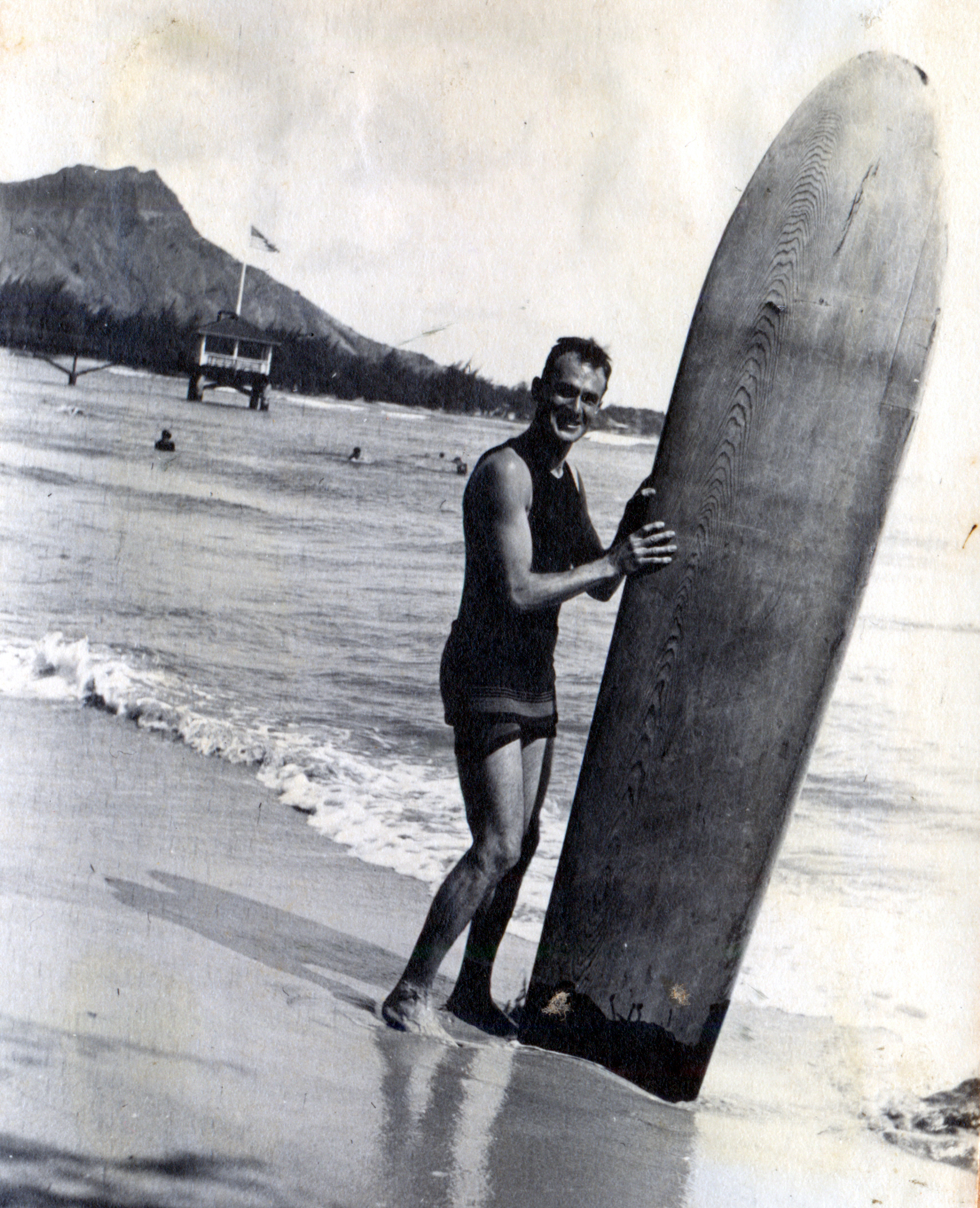 Photograph of Dr. Cyril Pemberton taken circa 1916 surfing at Waikiki Beach with Diamond Head in background.